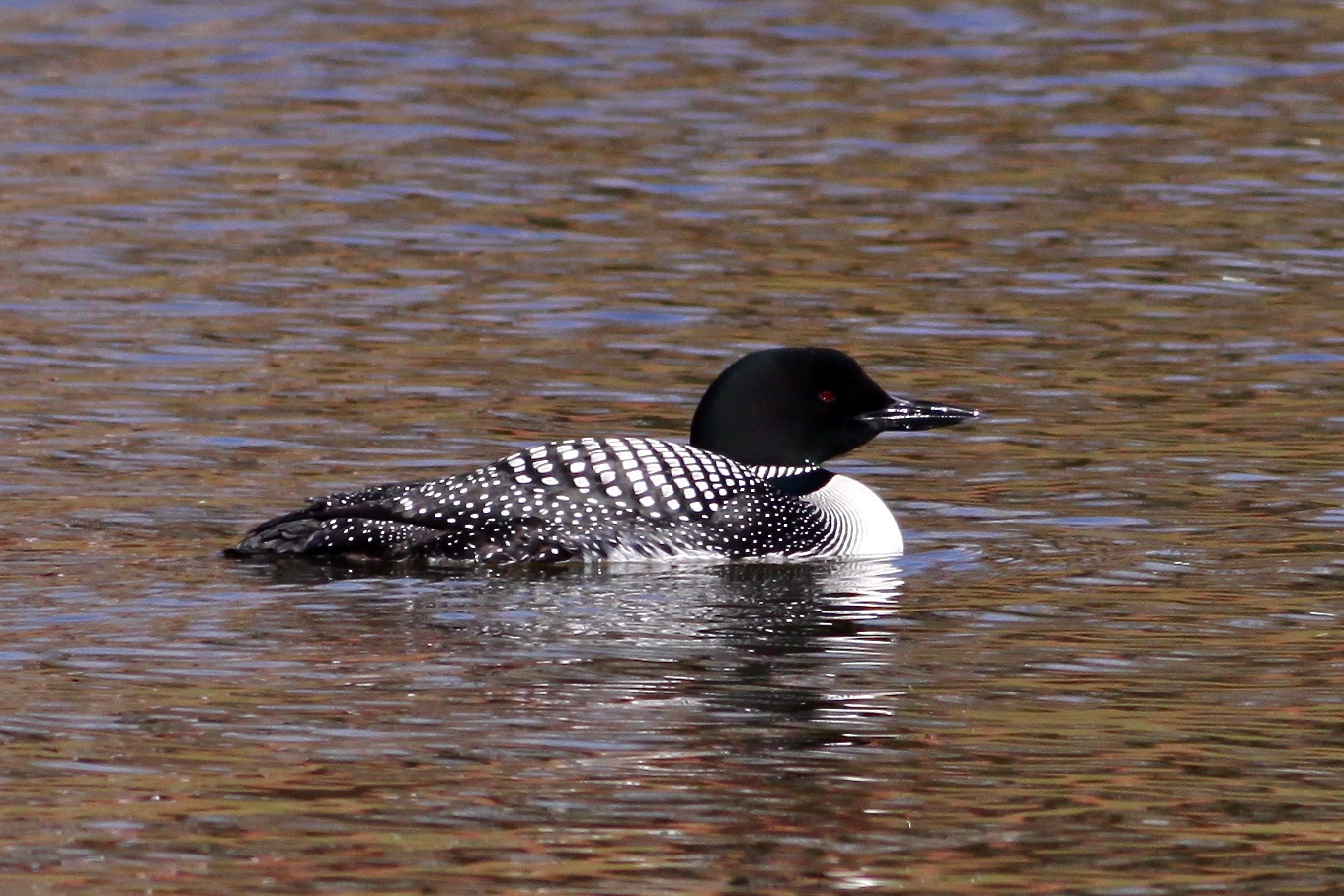 Beaumaris Lake Hard not to blow out the white and still get good exposure for the black.